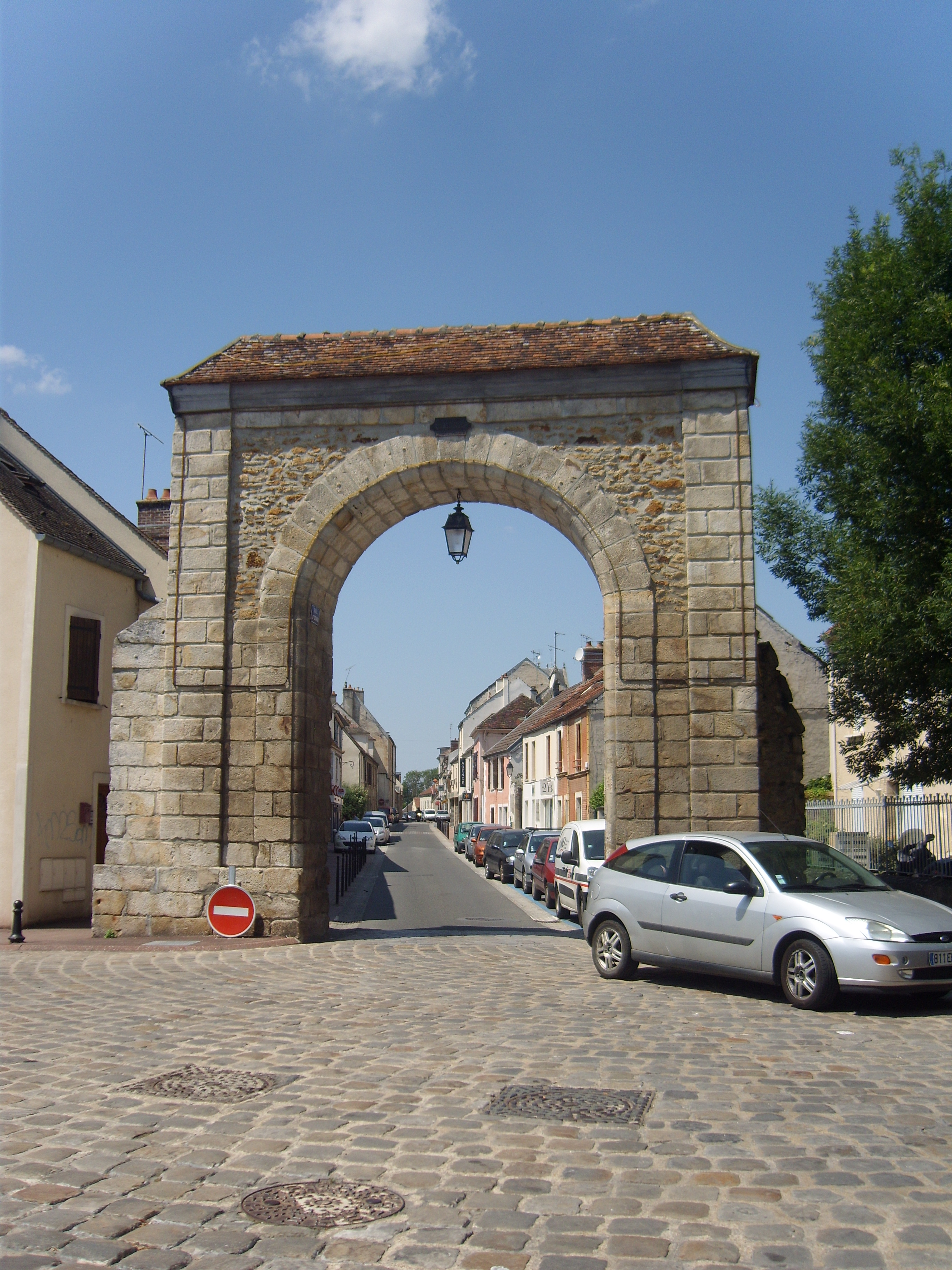 Lower Gate and Bertaux Street in Fontenay-Trésigny